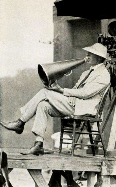 American director David Wark Griffith aka D. W. Griffith, on page 80 of Peter Milne, Motion Picture Directing; The Facts and Theories of the Newest Art (1922).